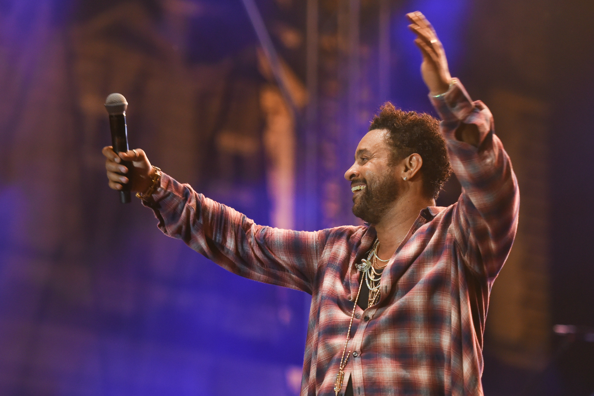 Shaggy during show. Photography from concert in Bielsko-Biala, Poland, 2019. Shaggy, reggae and dancehall musician and singer/